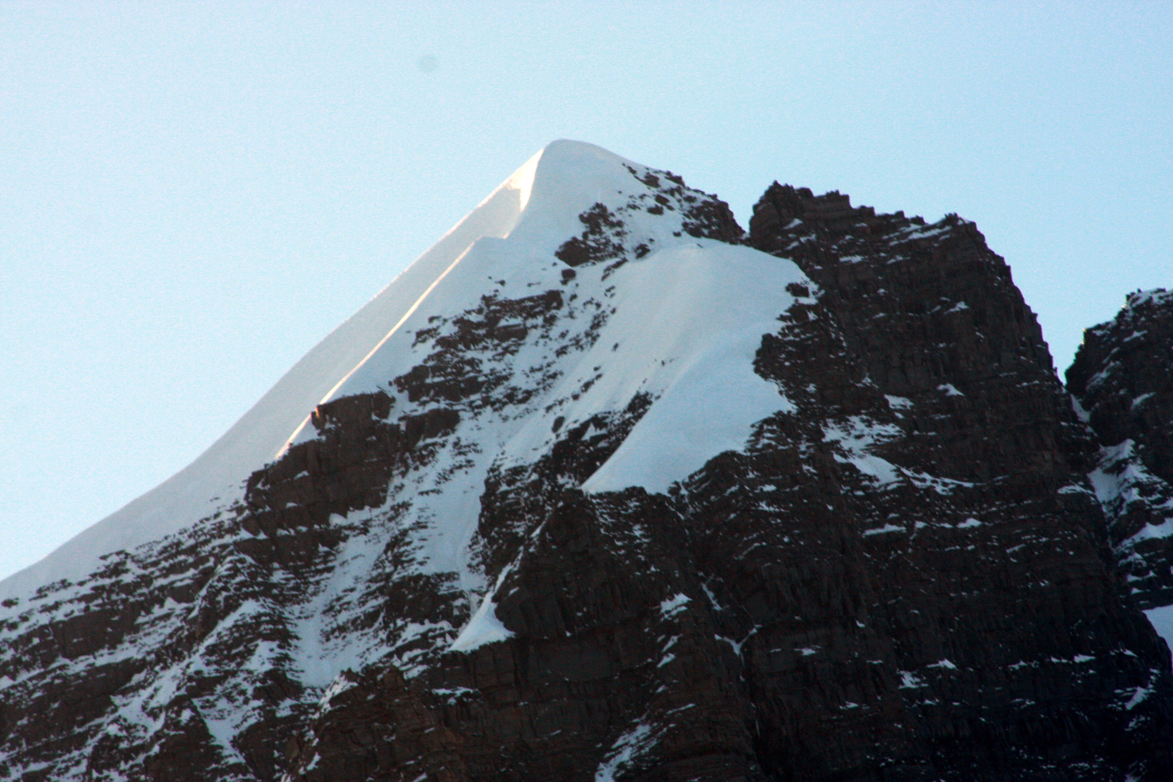 First sunrays over the mountain